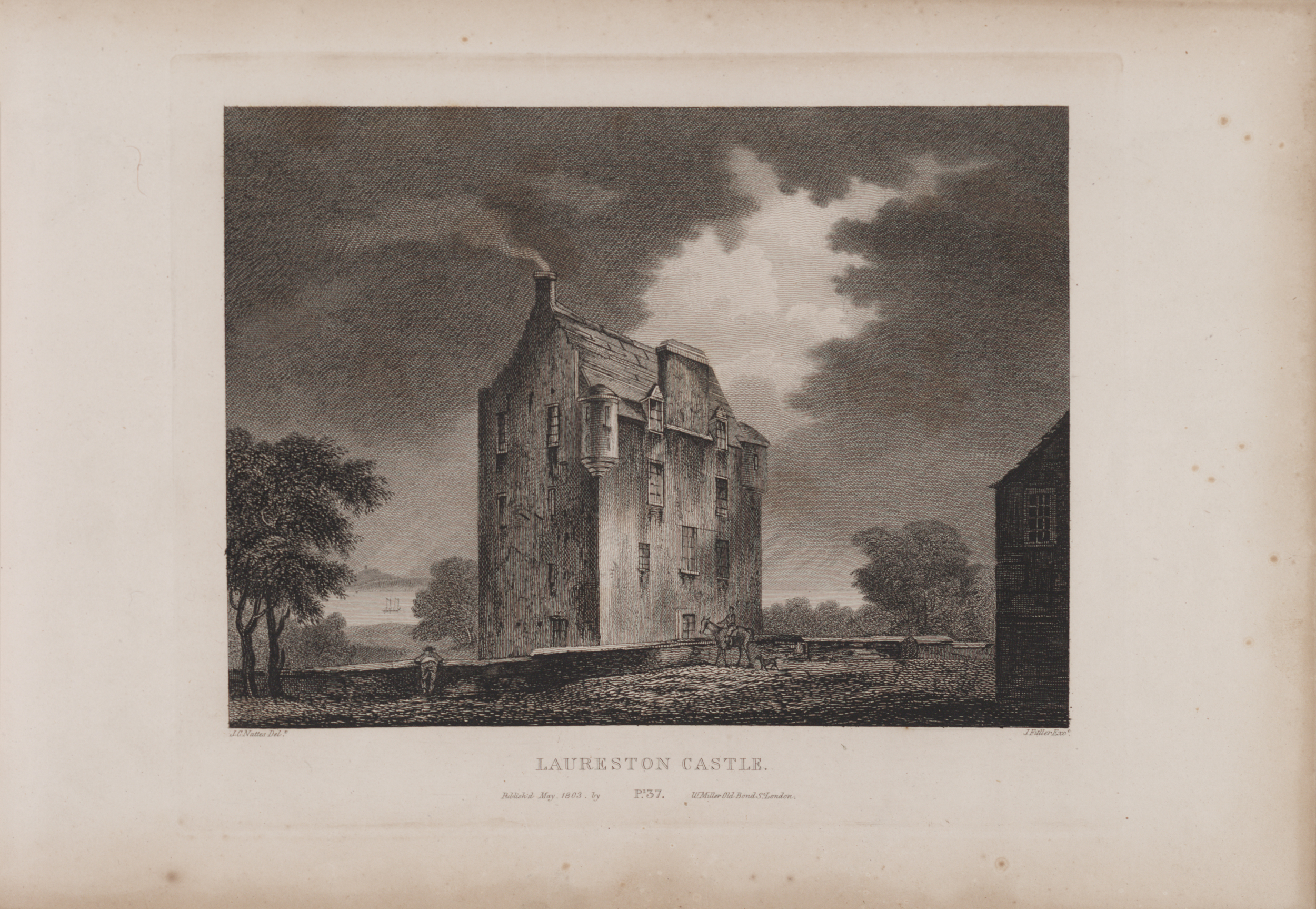 Plate XXXVII/c - John Claude Nattes made drawings of suitable scenes on the spot; etchings are by James Fittler.